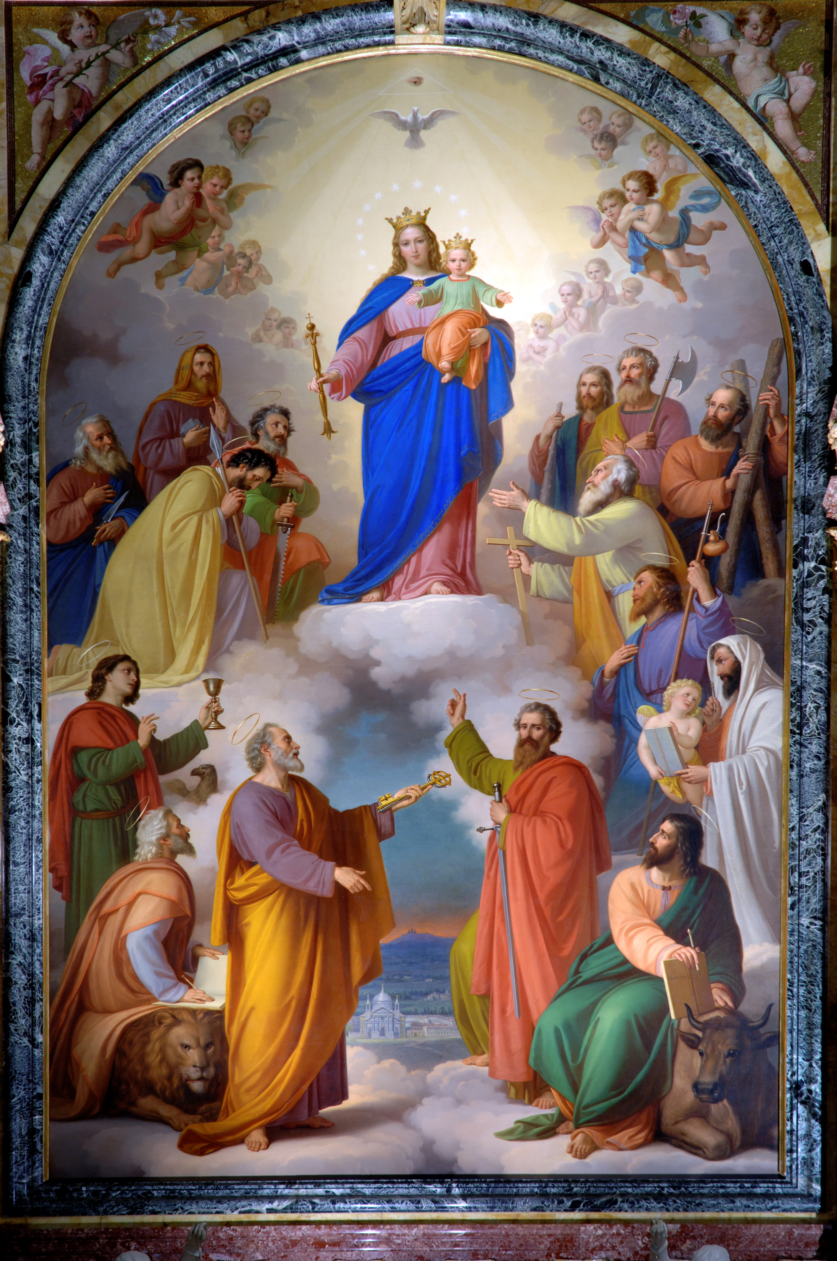 Painting of Mary Help of Christians. Located in the Basilica of Our Lady Help of Christians, Turin, Italy.